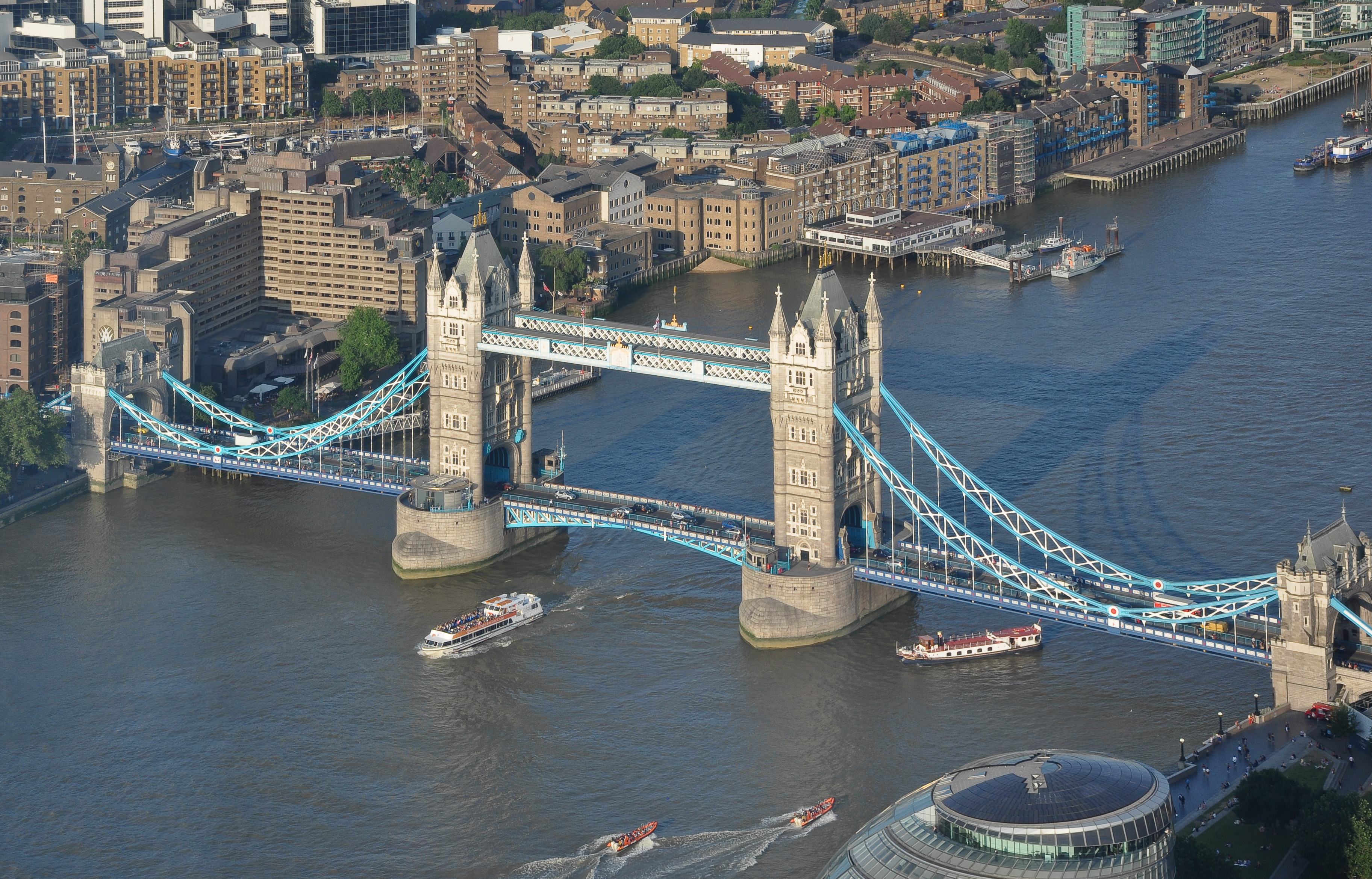 Tower Bridge in London viewed from The Shard.